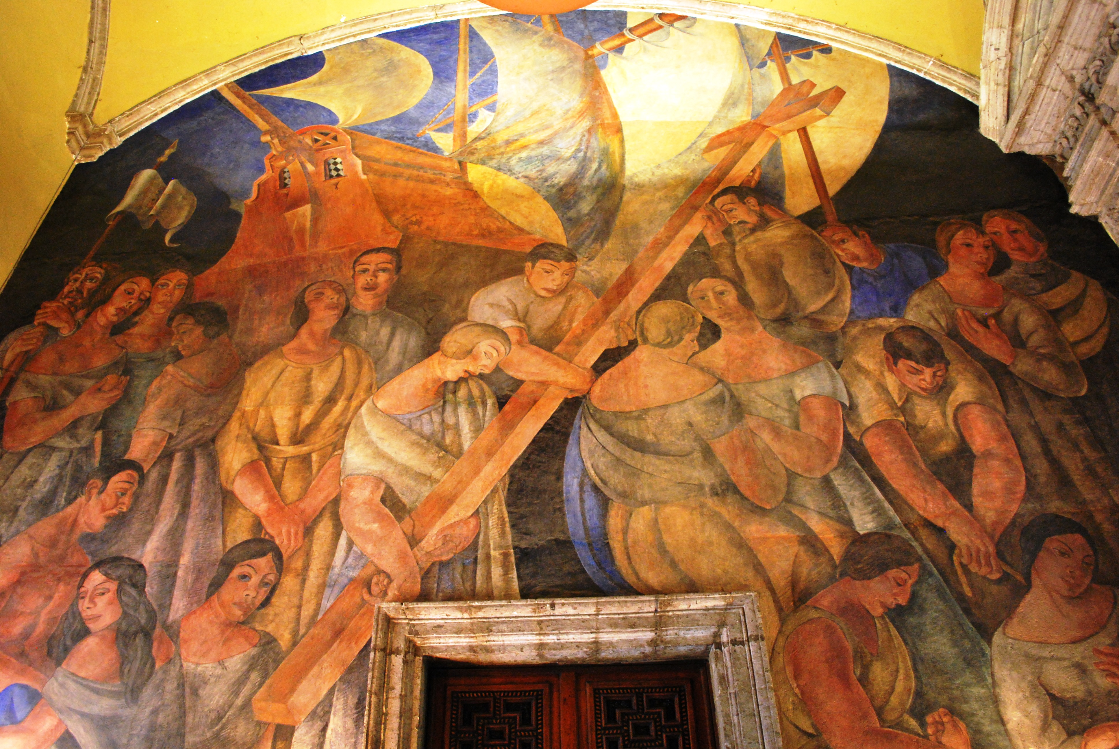 A portion of "El desembarco de los españoles y la cruz plantada en tierras nuevas" by (The Spaniards disembarking and the Cross planted in new lands) by Ramon Alva de la Canal located in one of the walls of the San Ildefonso College in the historic center of Mexico City.